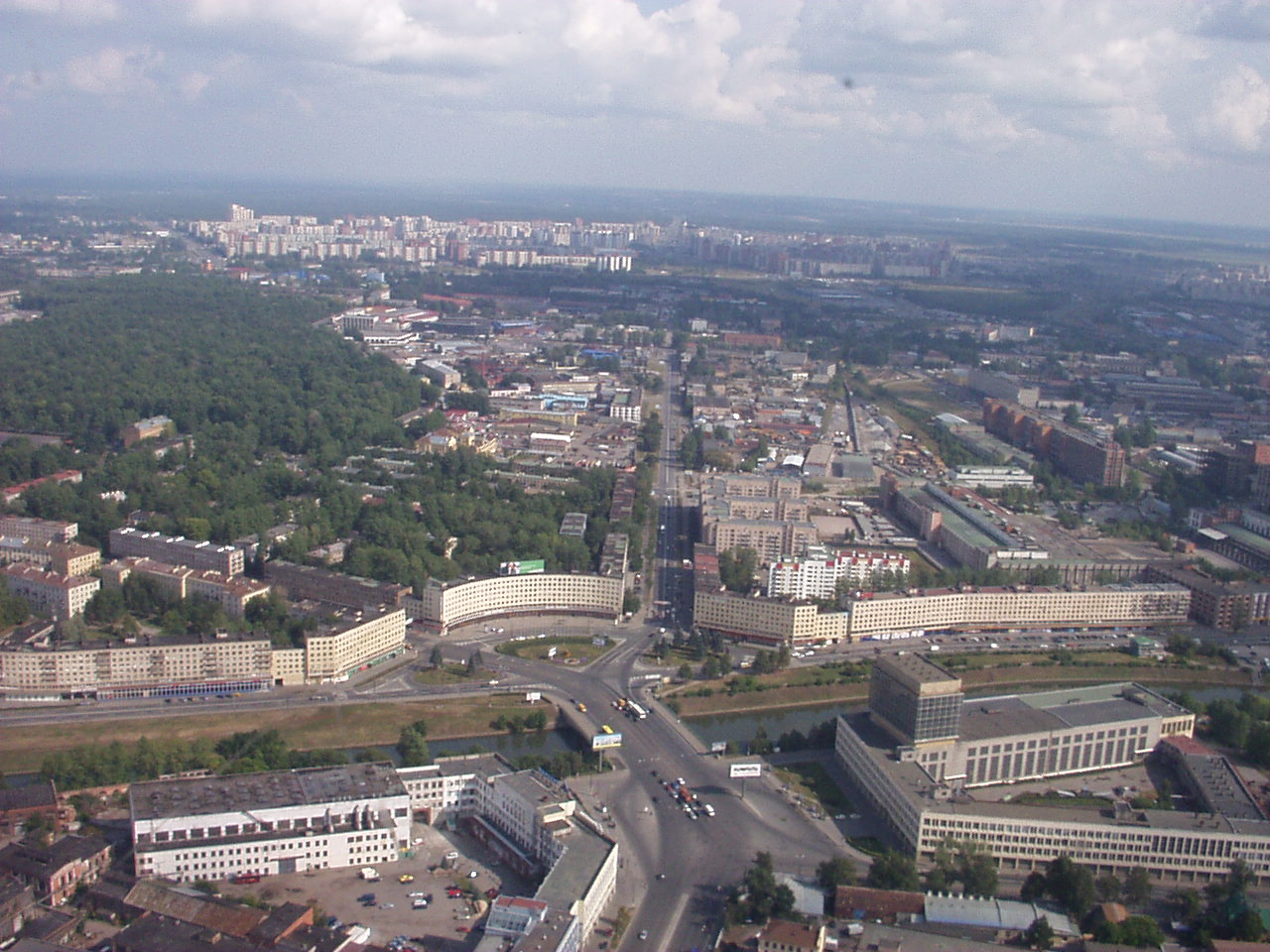 Komarovsky bridge in Saint Petersburg and Bolshaya Okhta district aerial view